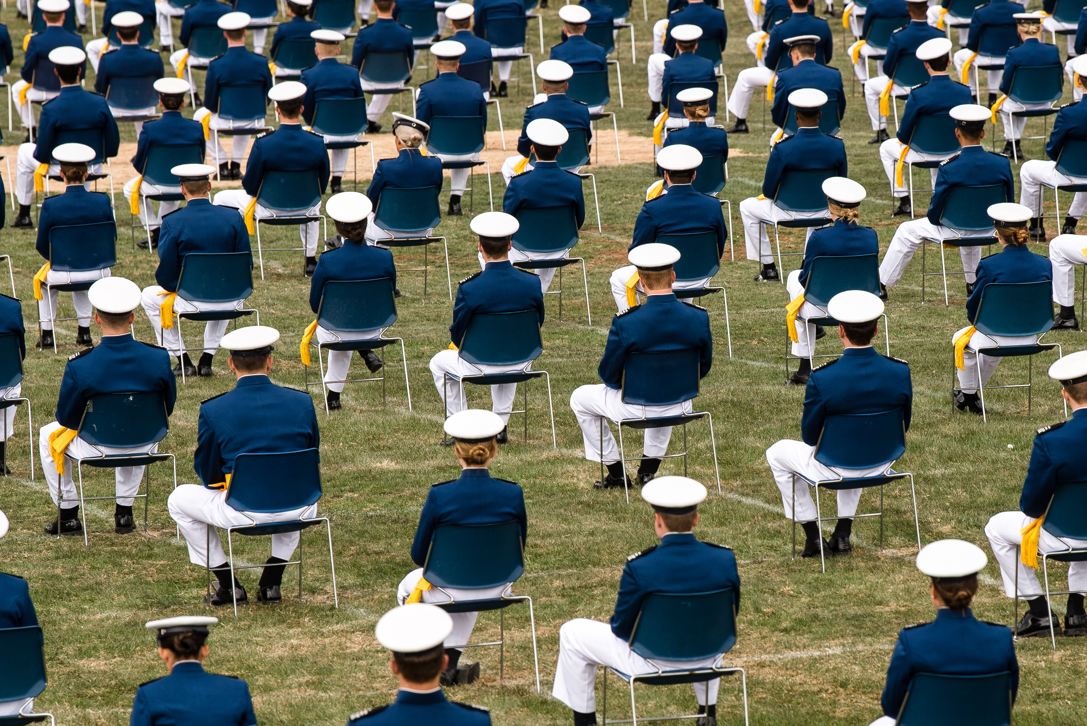 U.S. Air Force Academy -- Cadets sit on the terrazzo during the U.S. Air Force Academy's Class of 2020 Graduation Ceremony at the Air Force Academy in Colorado Springs, Colo., April 18, 2020. Nine-hundred-sixty-seven cadets crossed the stage to become the Air Force/Space Force’s newest second lieutenants. (U.S. Air Force photo/Trang Le)